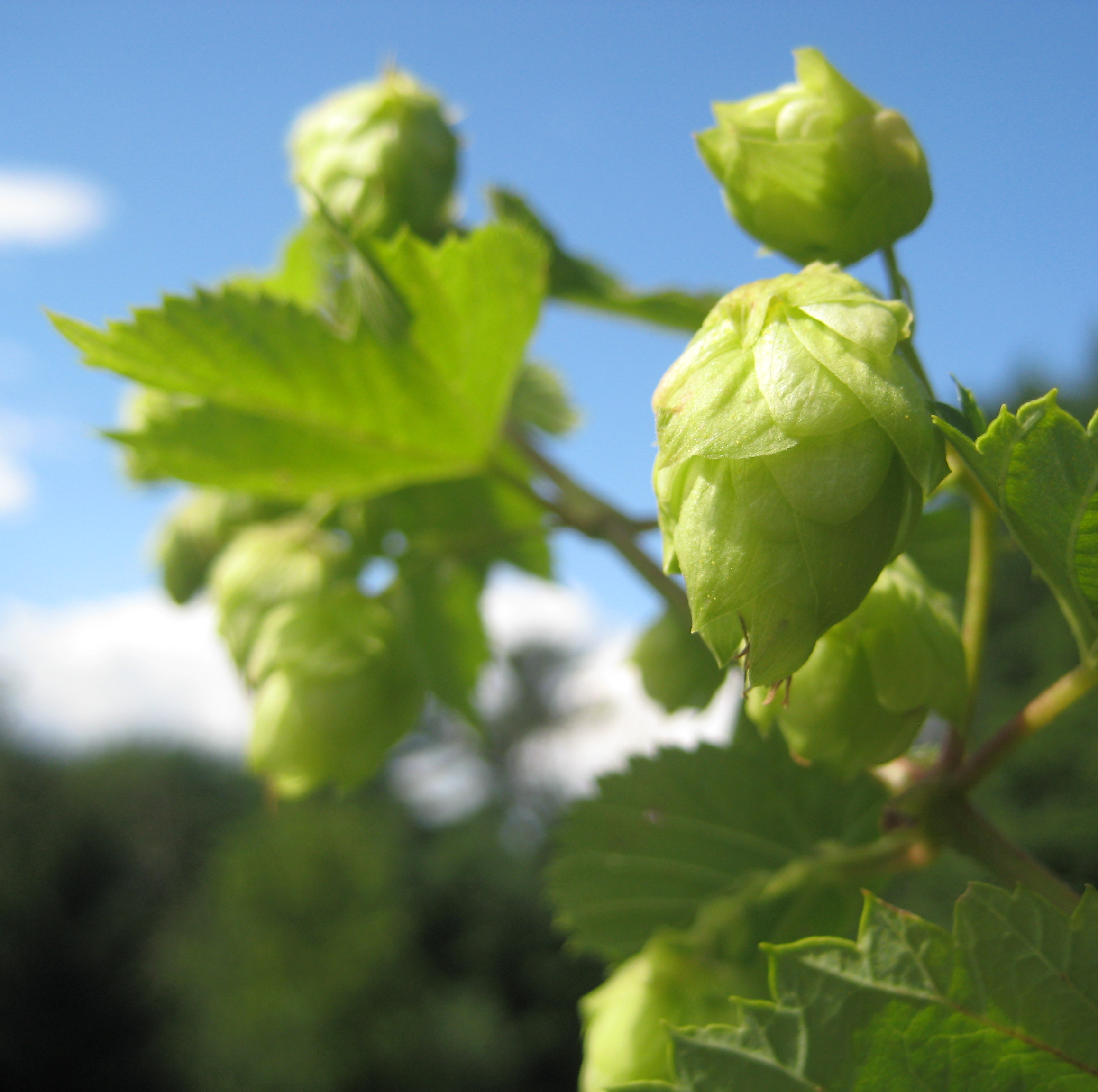 Cascade Hop cones in the sunlightCascade Hops!